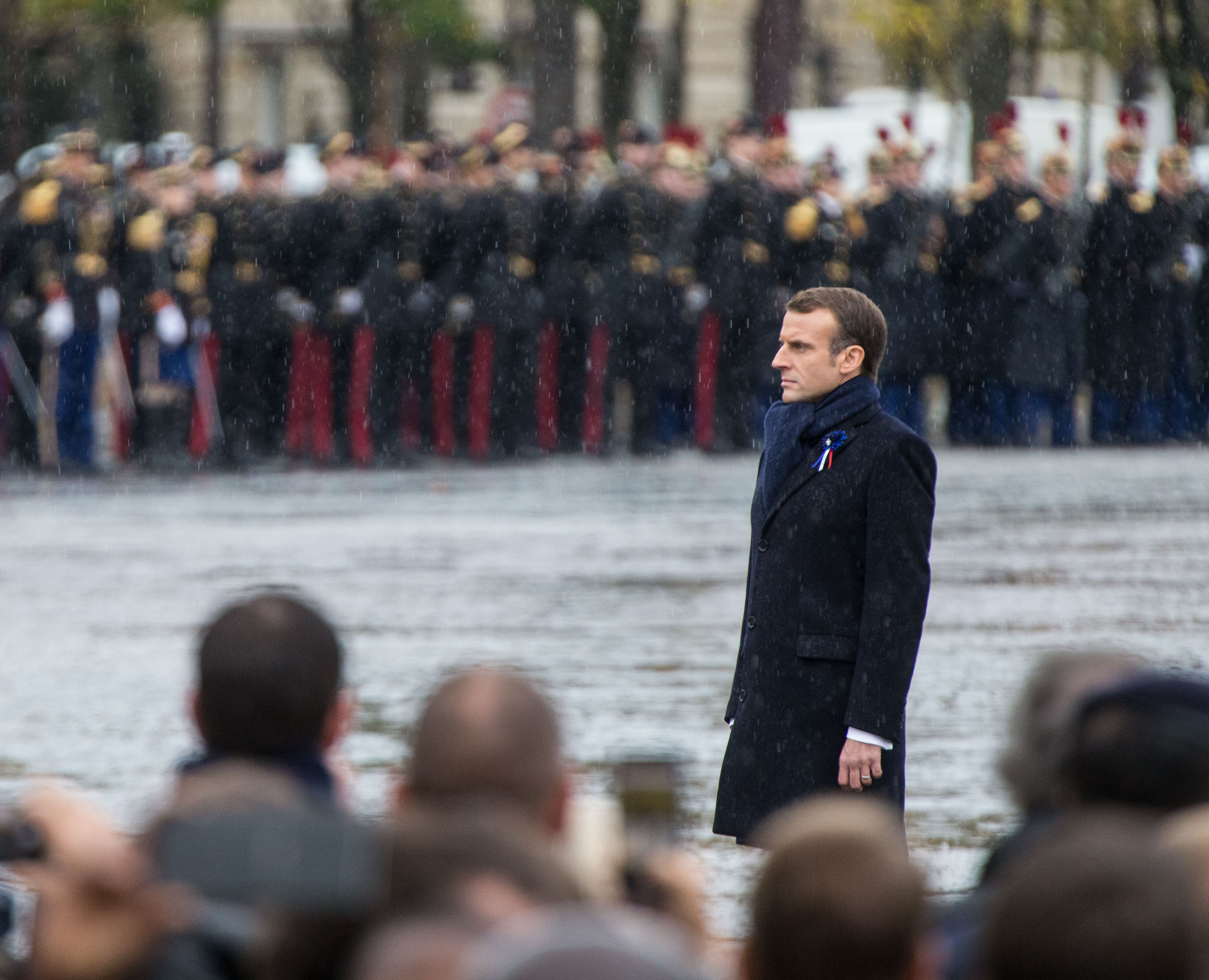 Emmanuel Macron